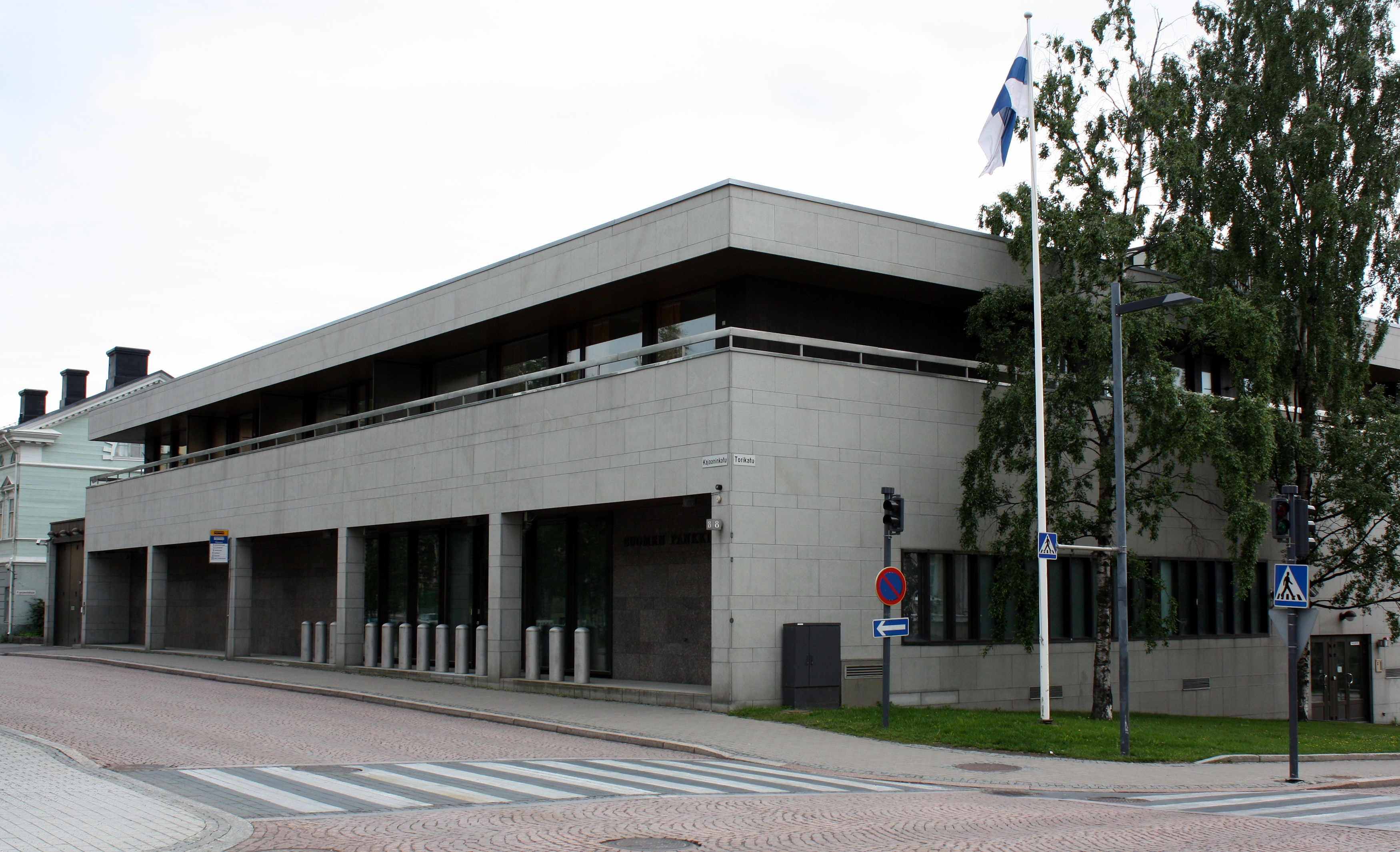 Regional branch office of the Bank of Finland in Oulu. The building was completed in 1973 and designed by archutect Aarne Ehojoki.